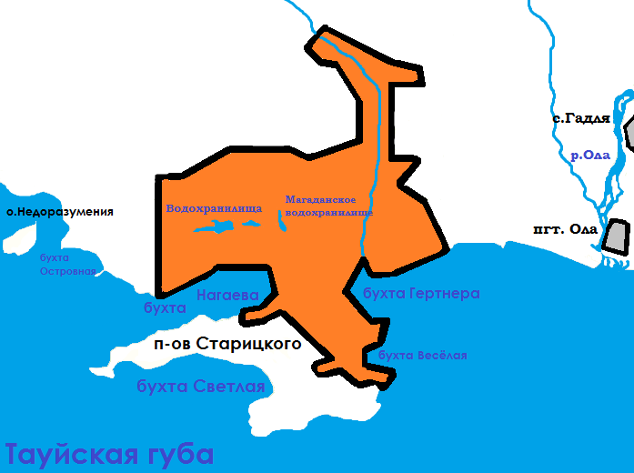 Map of Magadan (Russia)